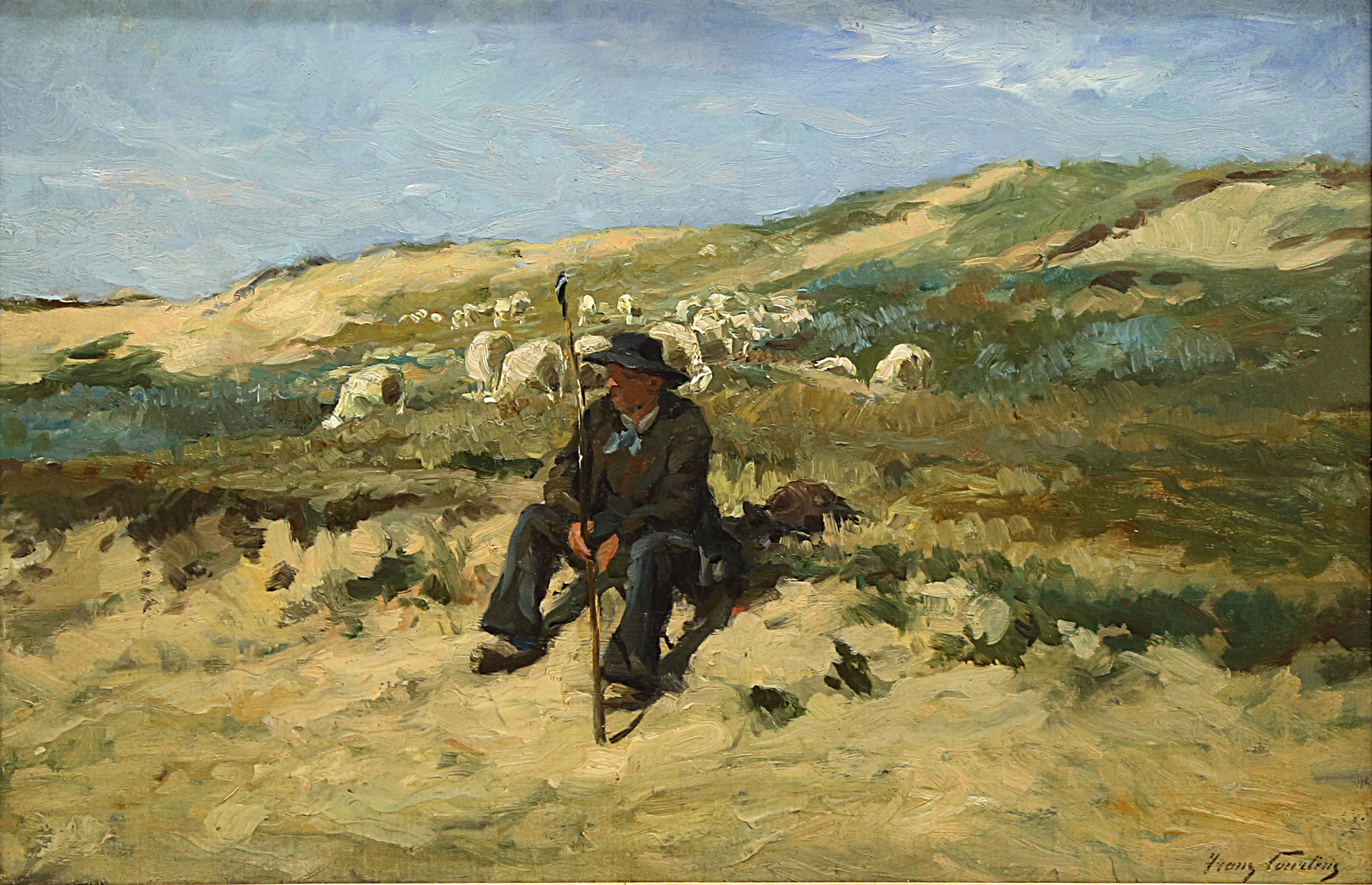 Franz Courtens, « Shepherd in the dune », oil on canvas stuck on panel. Private collection. Picture taken in the Cultural center Marius Staquet in Mouscron, Belgium.